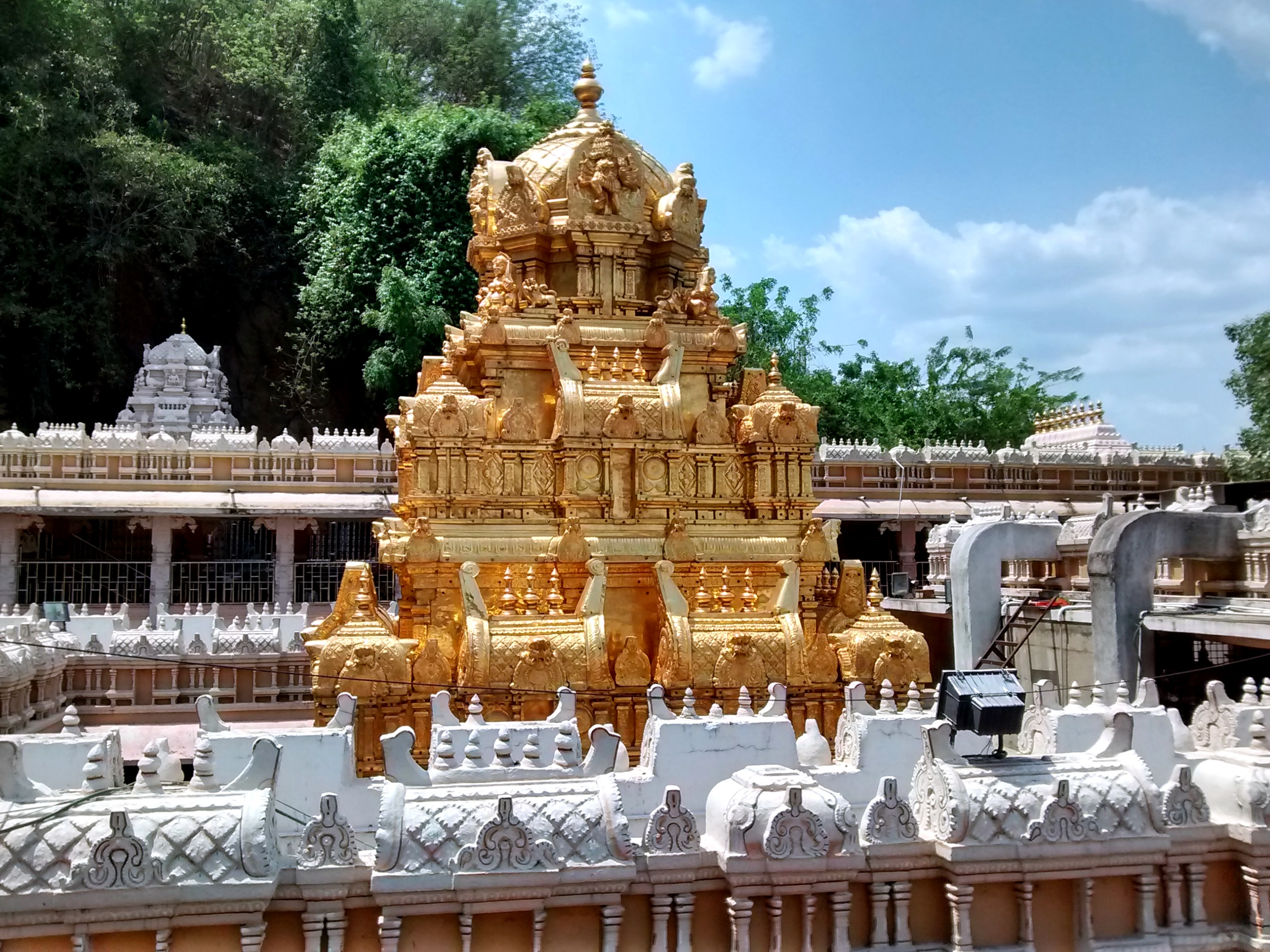 Kanakadurga Temple gopuram